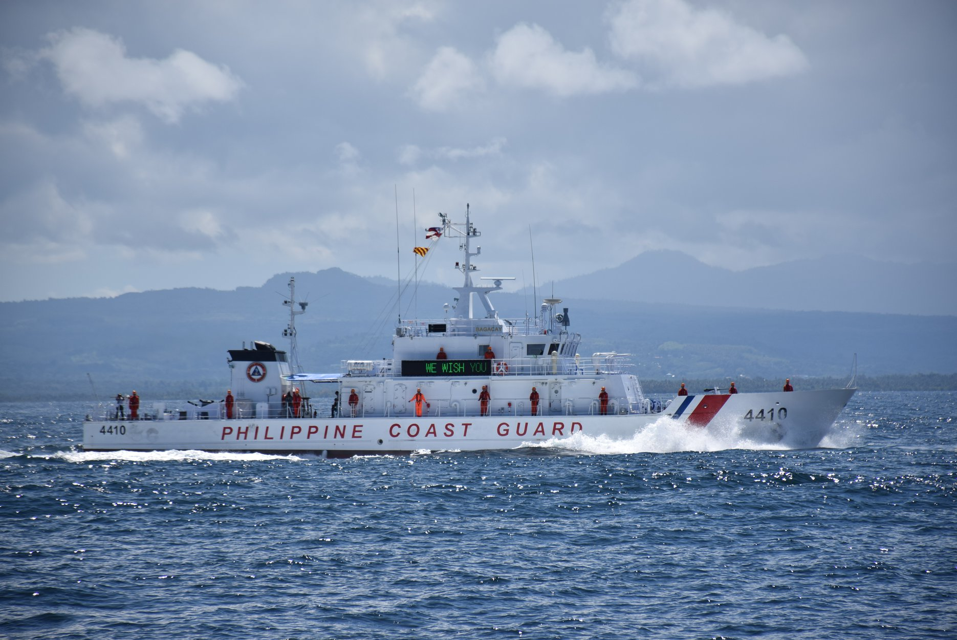 Owned by Philippine Coast Guard and it is public domain. Philippine Coast Guard and Japan Coast Guard hold communication exercise involving BRP Cape San Agustin, BRP Bagacay and patrol ship Echigo at Basilan Strait.